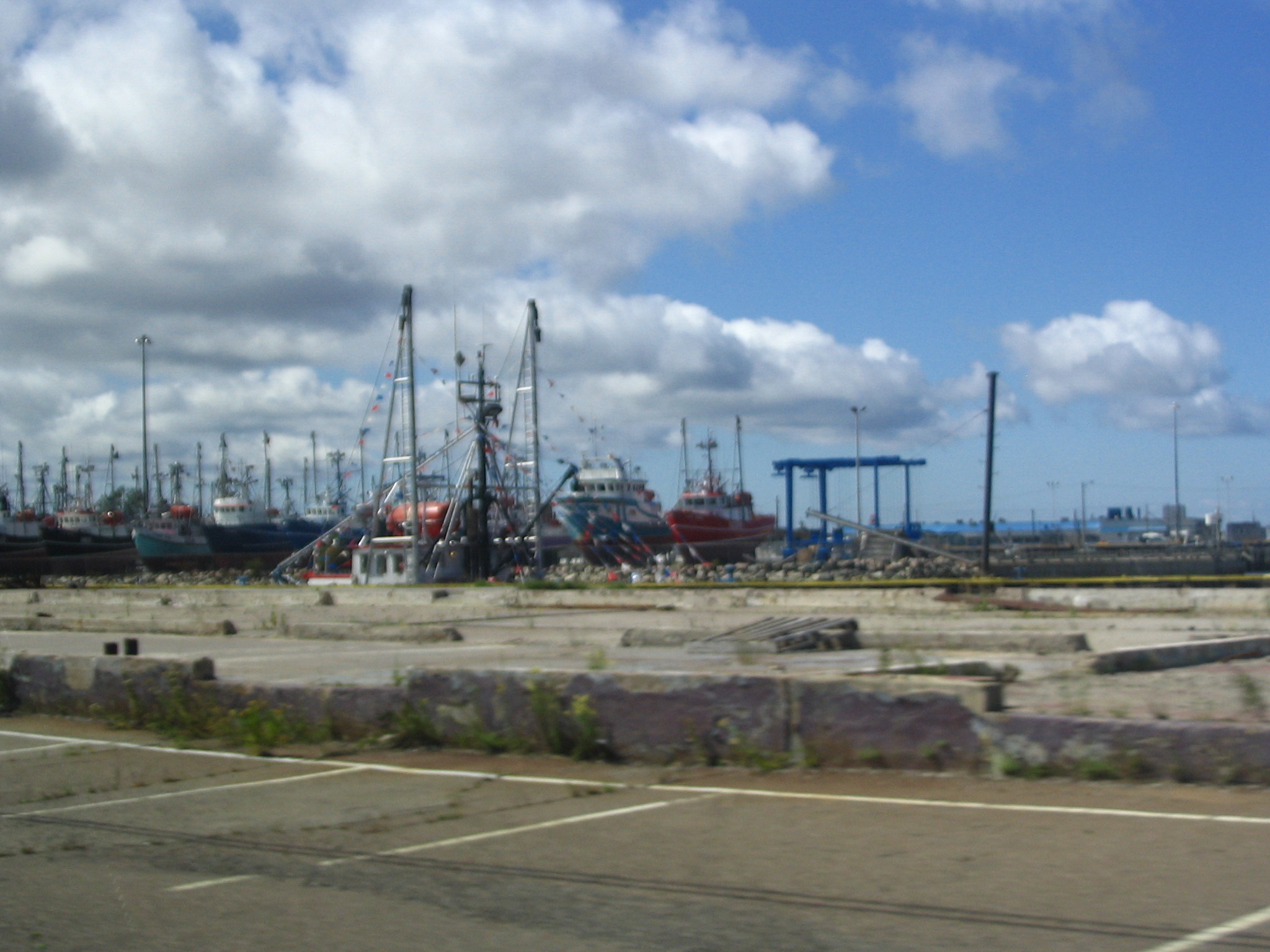 The ruins of the Daley Brothers factory in Shippagan, New Brunswick (Canada). It was burned down during a riot in 2003.